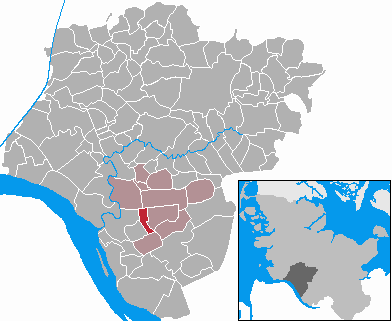 This map shows the area of the Stadt (town) Krempe in the Kreis (district) Steinburg, Schleswig-Holstein, Germany.